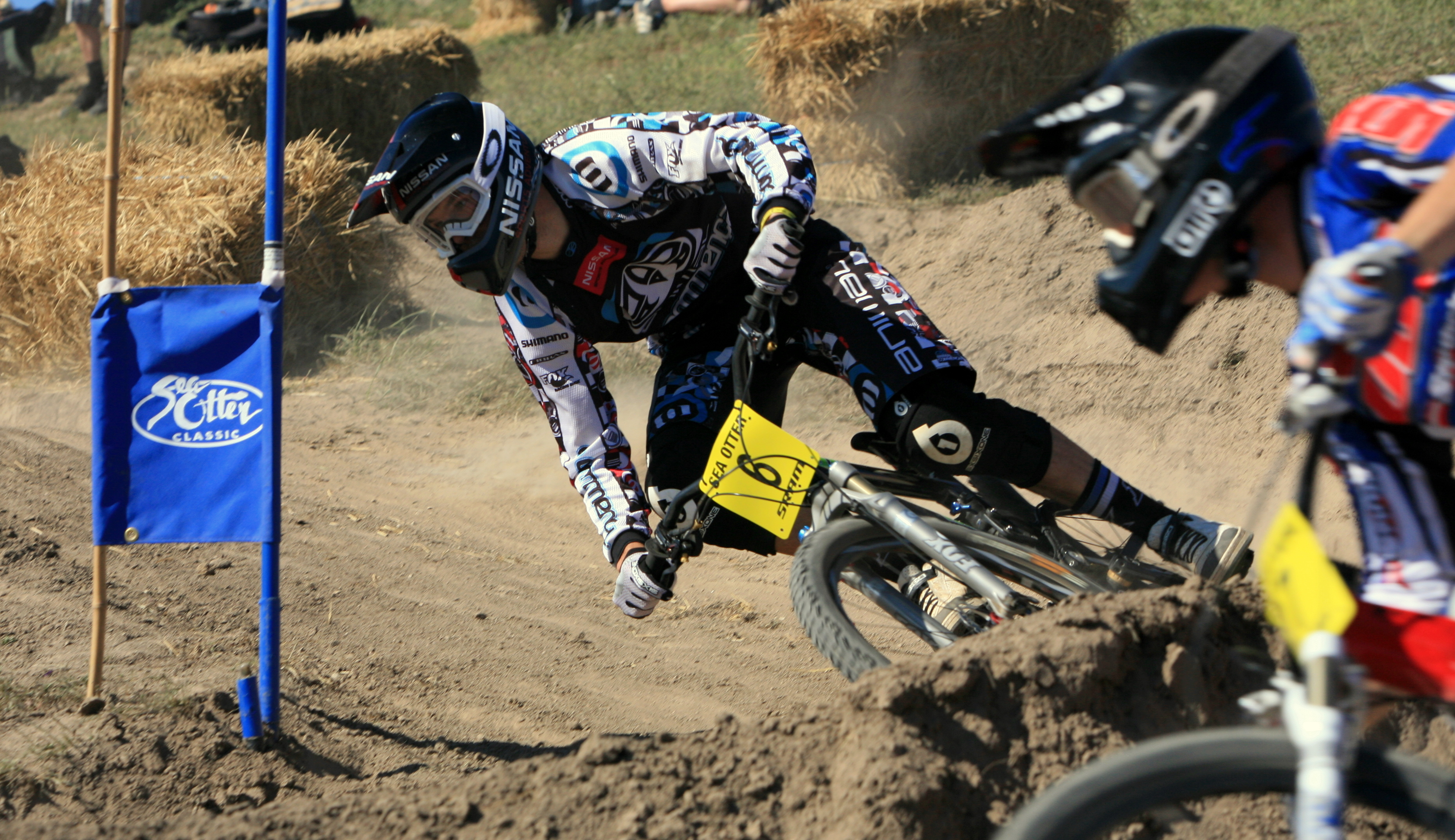 Dan Atherton during the first round match-up of the Elite-Men's Dual Slalom event at the 2009 Sea Otter Classic in Laguna Seca, CA.